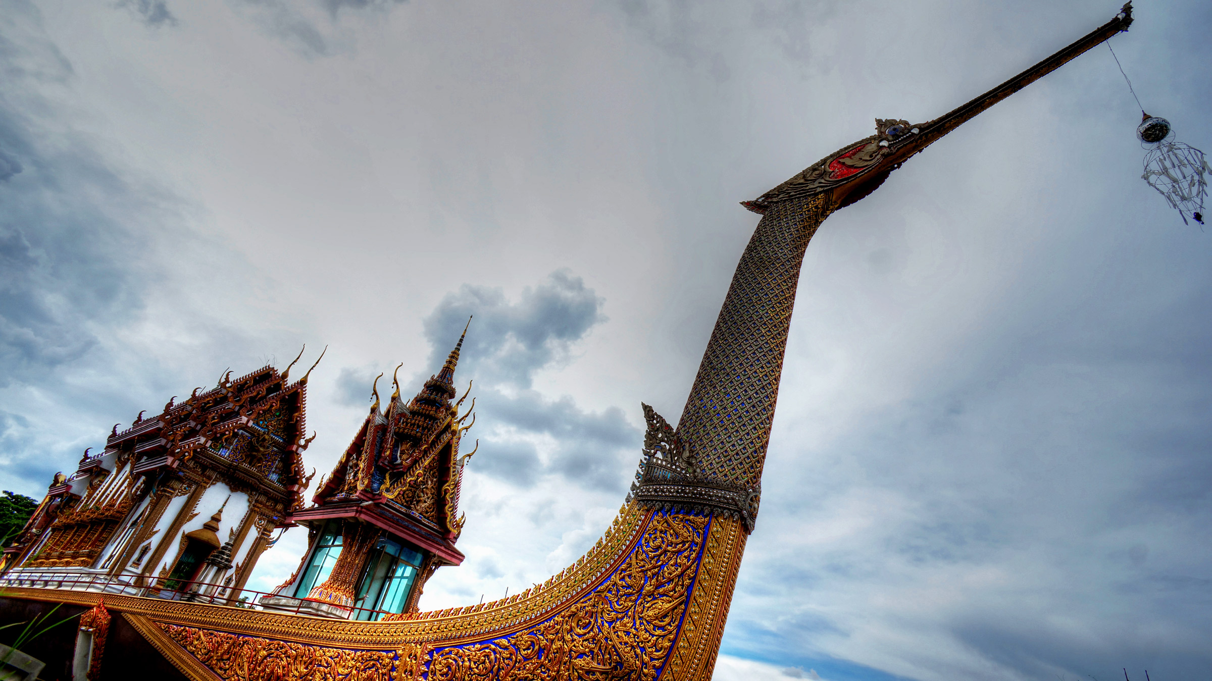 The new ubosot, built in the shape of a swan boat, of Wat Chalo